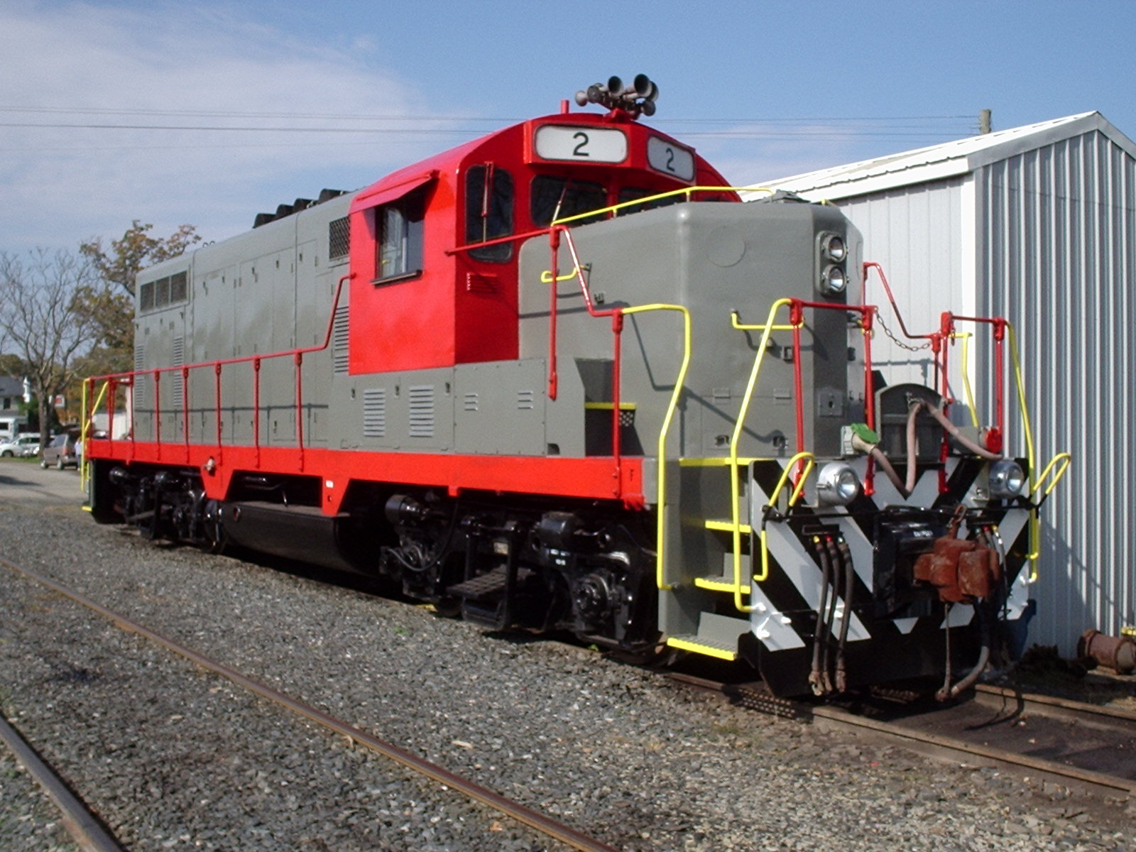 Example of the Uceta GP16 series of rebuilt diesel-electric locomotives